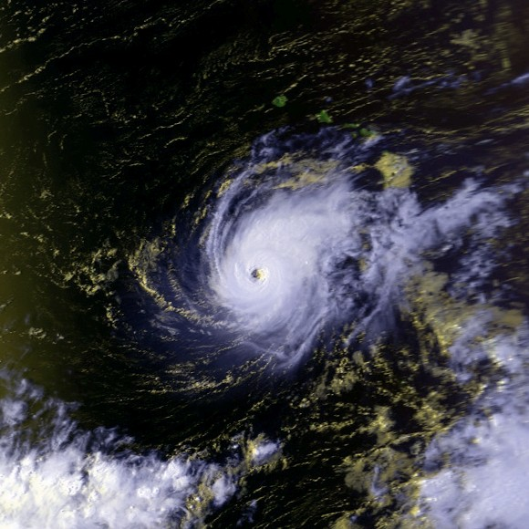 Hurricane Uleki on September 3 at approximately 0240 UTC. This image was produced from data from NOAA-9, provided by NOAA.